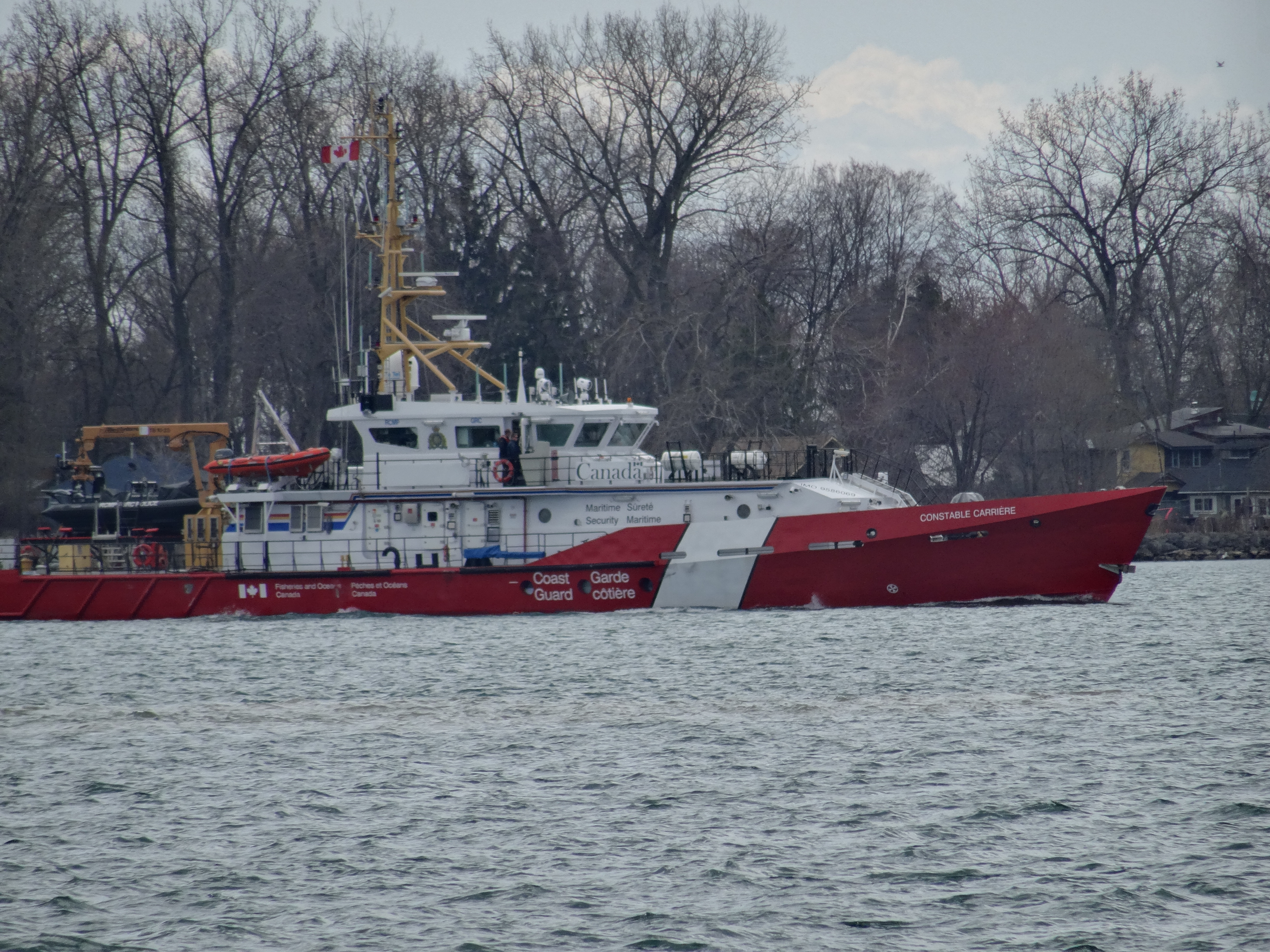 Hero class CCGS Constable Carriere in Toronto, 2015 04 26 (4)